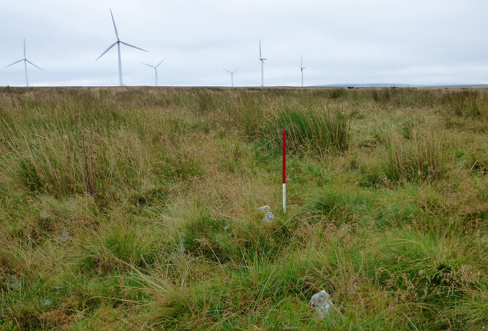 Tormsdale multiple stone row